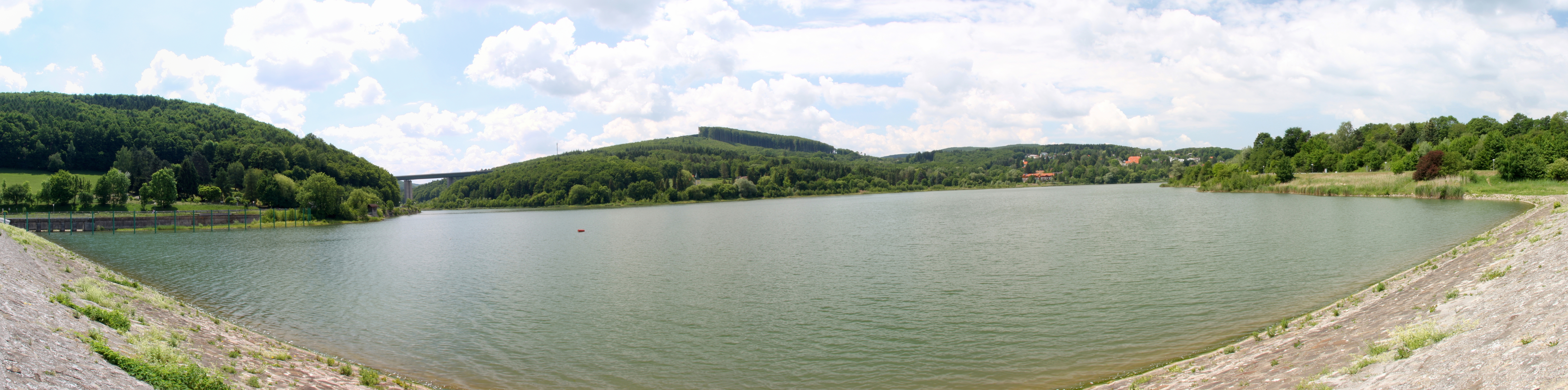 The Wienerwaldsee (Vienna Forest Lake). Taken from the North-East bank, viewing direction towards the Beerwart.